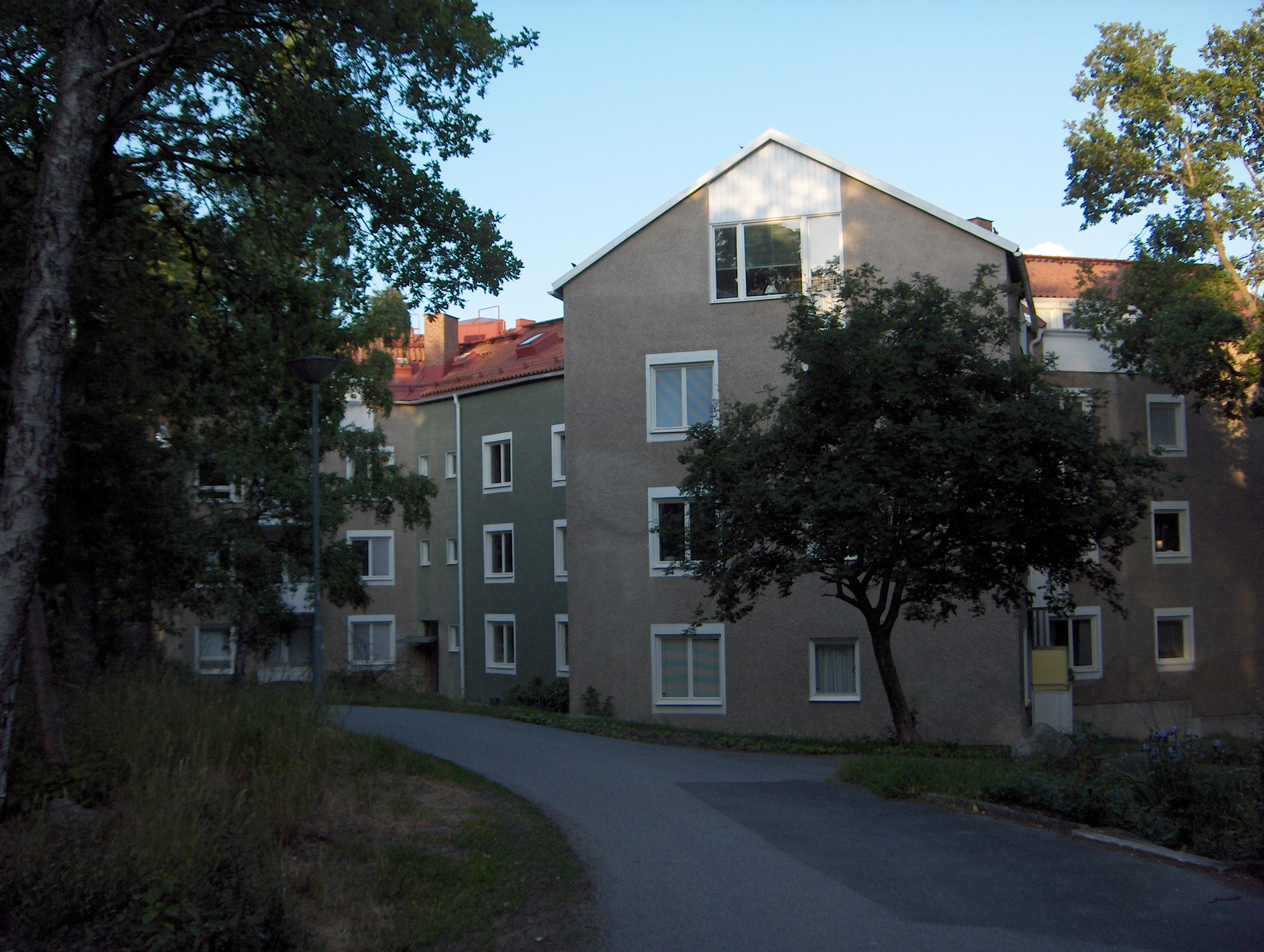 House in Bergshamra, Solna, Sweden.